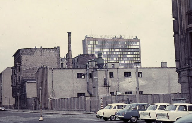 Street scene near the Wall in East Berlin with parked Wartburg and Trabant cars. The Axel Springer Building in the background belongs to West Berlin.